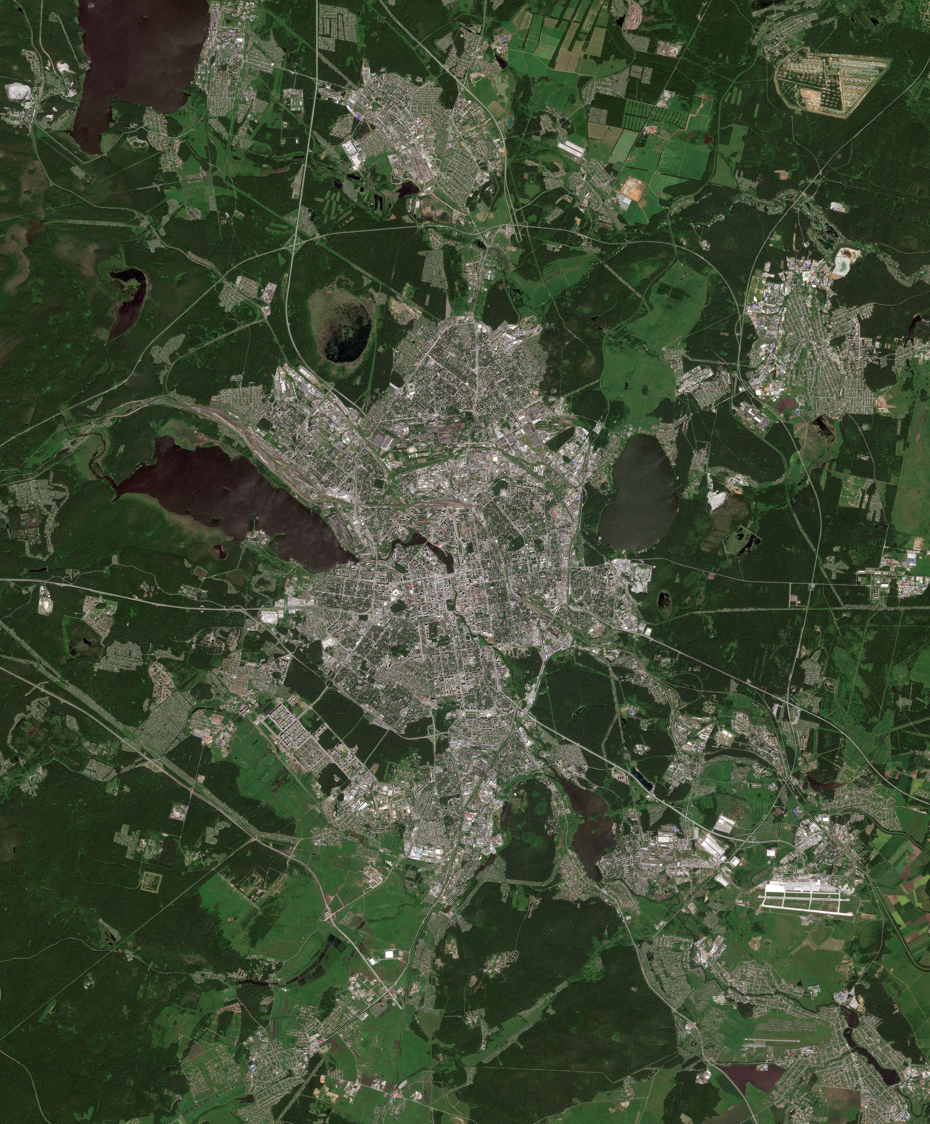 Yekaterinburg City (Russia) and vicinities, satellite image of ESA Sentinel-2, spatial resolution 10 m, near natural colors